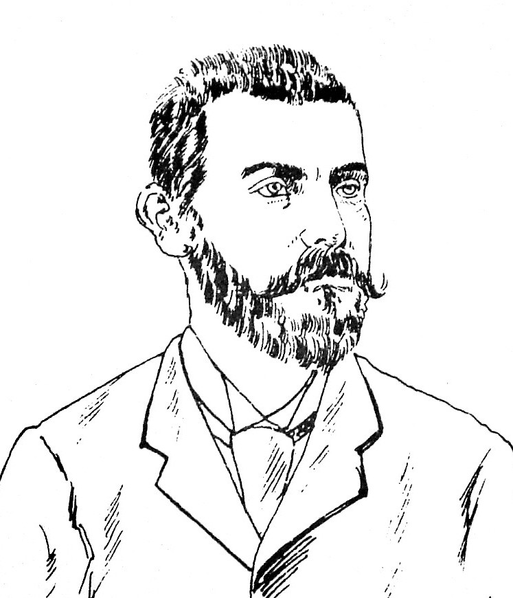 Extract of a caricature of politician and lawyer Guillermo Tell Villegas Pulido, appeared at the humoristic magazine “El Diablo” in 1892.